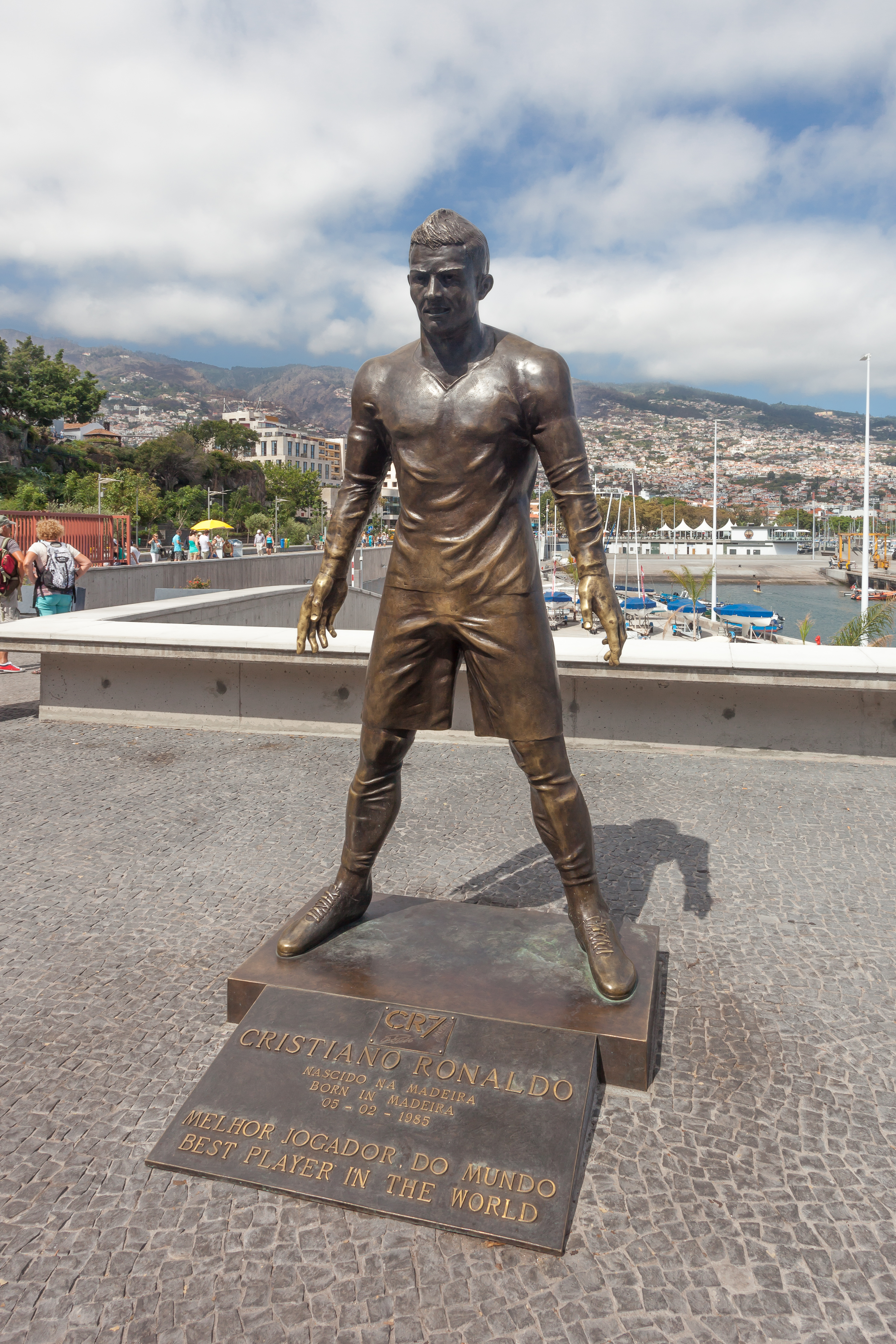 Statue of Cristiano Ronaldo, Madeira, Portugal.